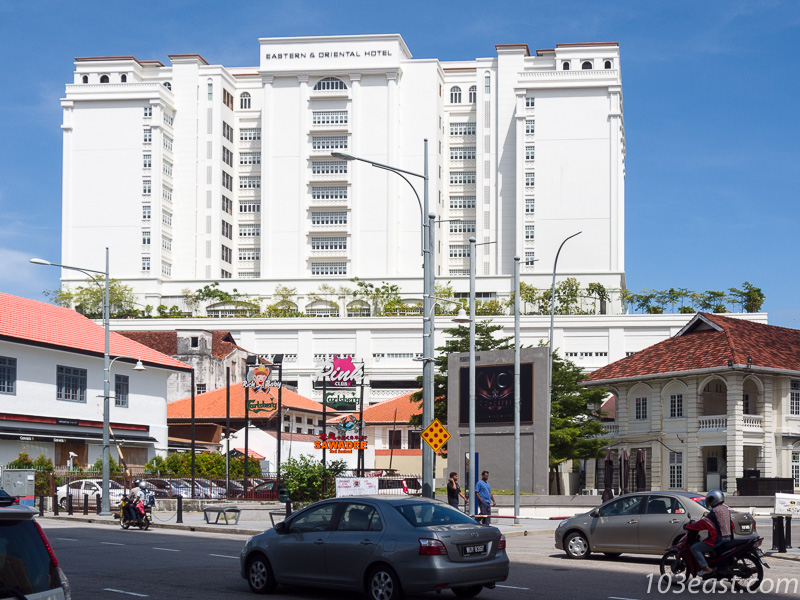 The new Victory Annex of the Eastern & Oriental Hotel